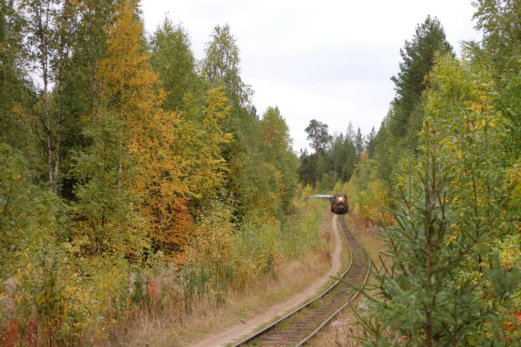 Перегон